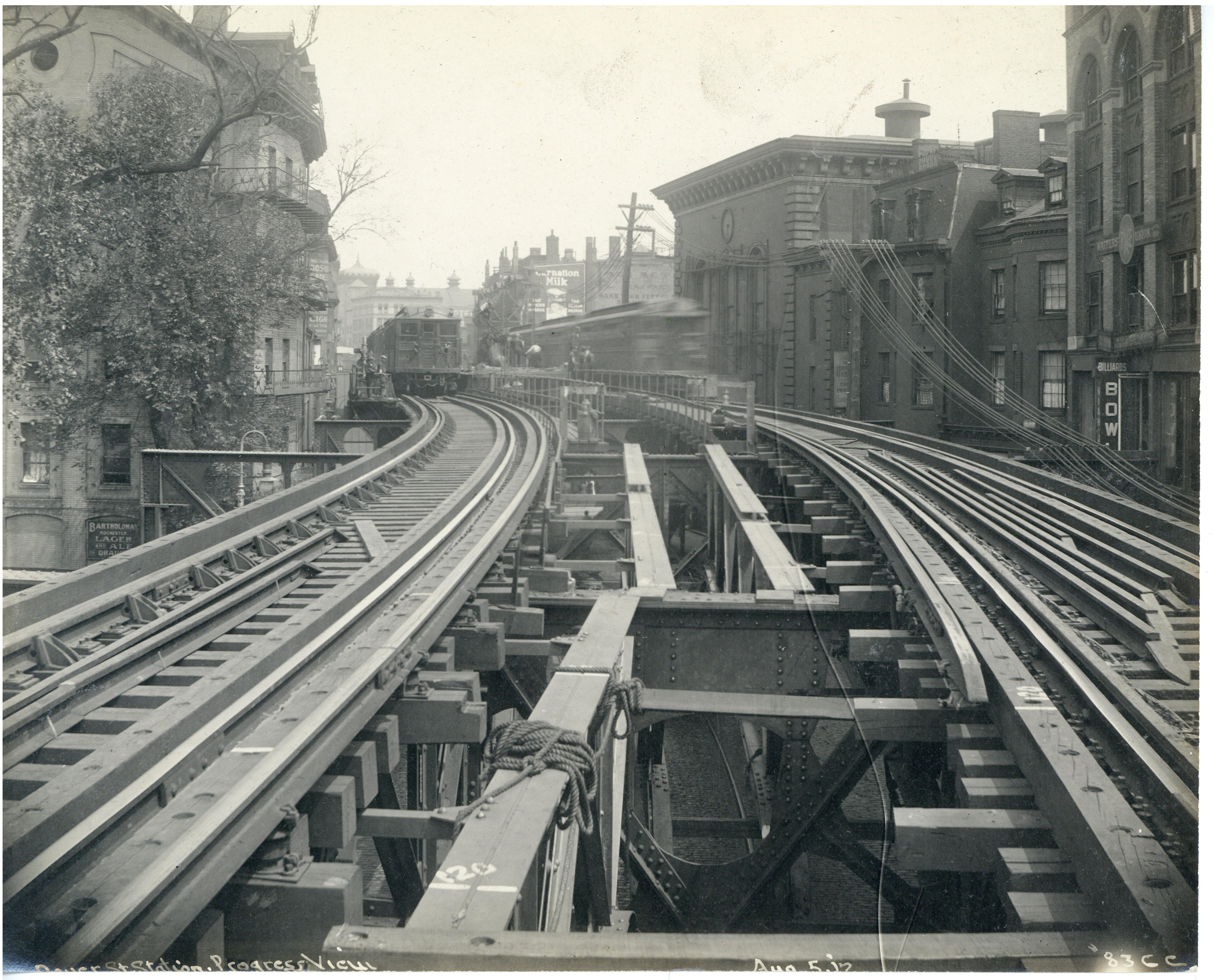 Facing north at construction progress on Dover station in August 1912. The original island platform is being demolished; it will be replaced with two side platforms.